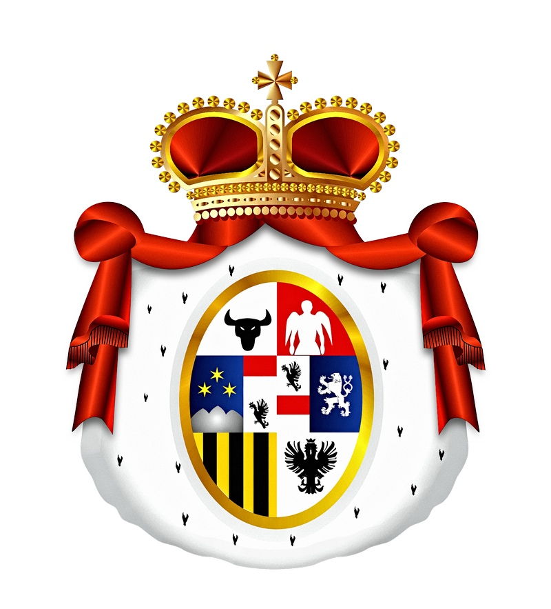 Lobkowicz coat of arms used on Bílinská kyselka mineral water factory